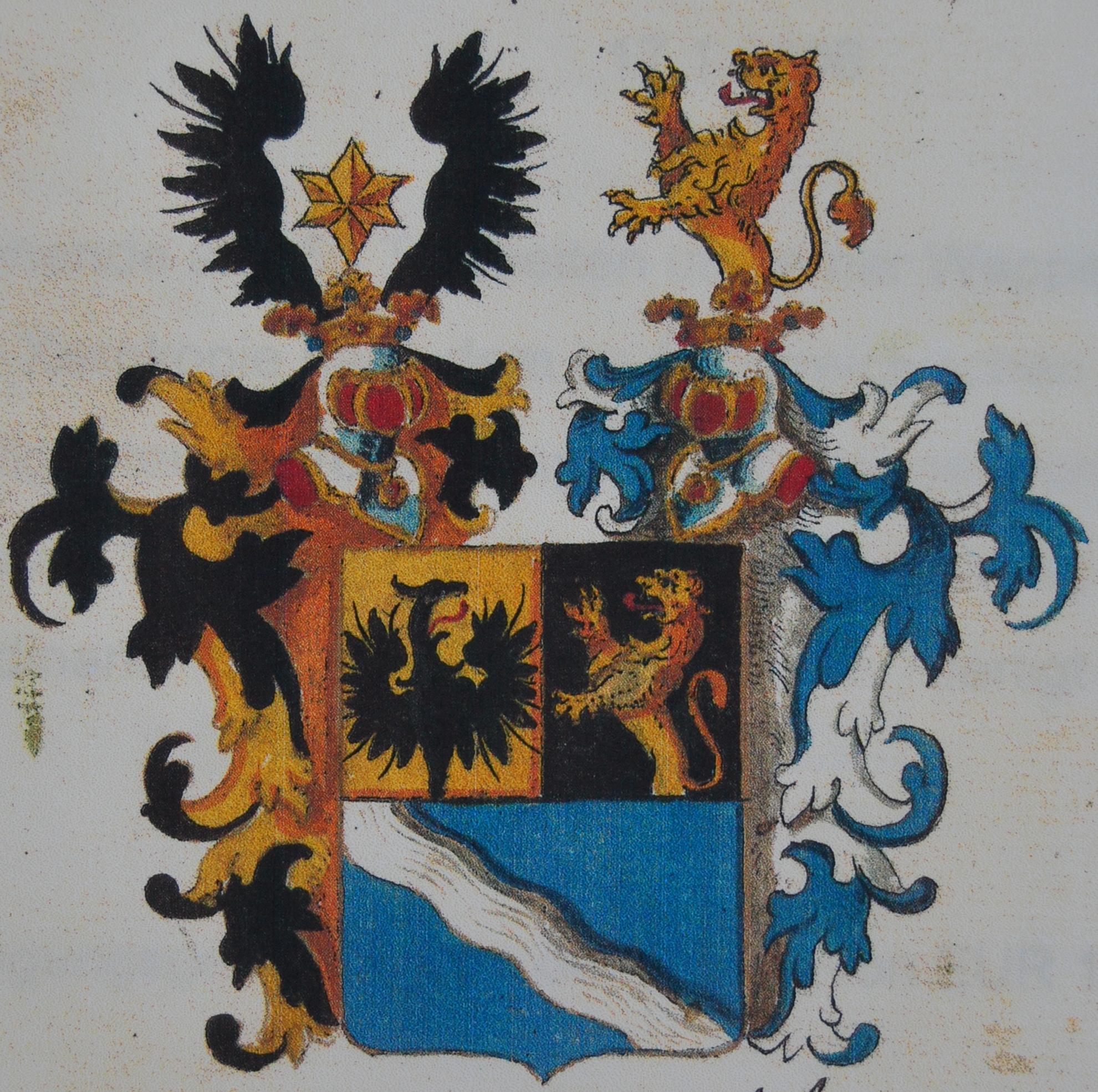 coat of arms Raus von Rausenbach